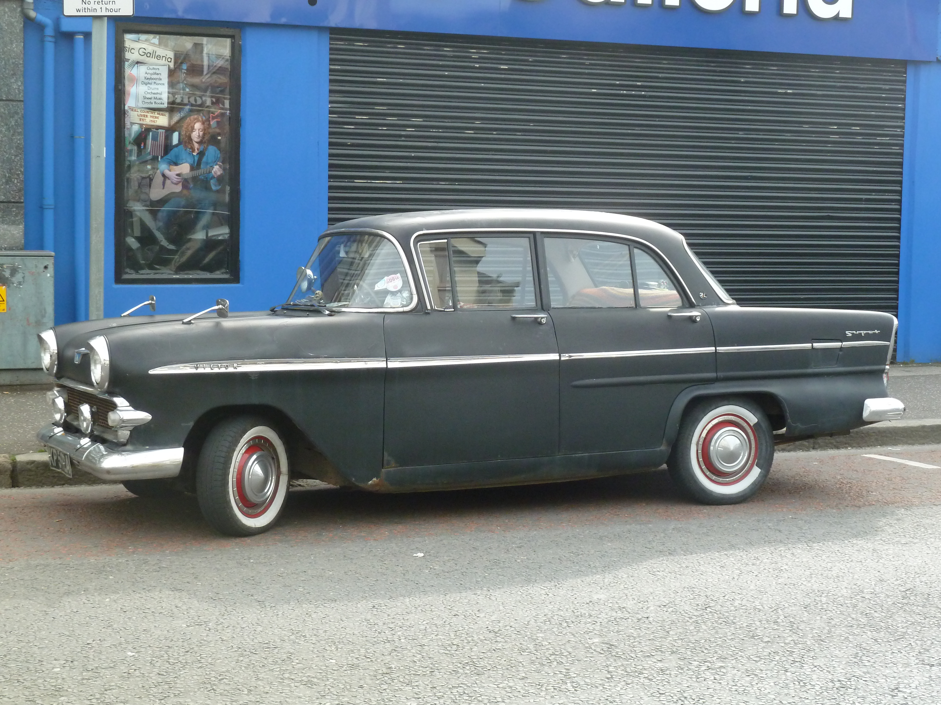 Vauxhall Victor Lisburn, Co. Antrim, Ireland